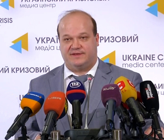 Deputy Head of the Presidential Administration of Ukraine Valeriy Chaly.